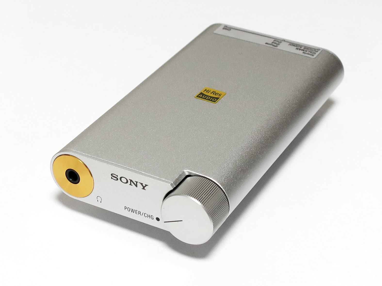 Sony portable headphone amplifier PHA-1A.